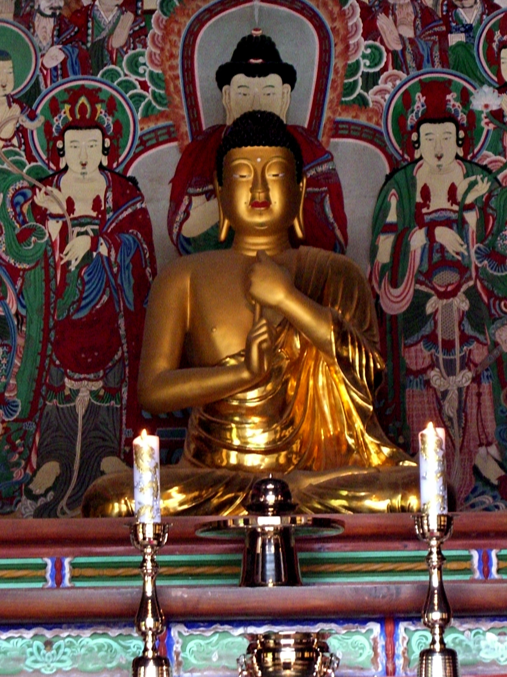 Gilt-bronze Vairocana Buddha at the Birojeon Hall of Bulguksa Temple and a National Treasure of South Korea.